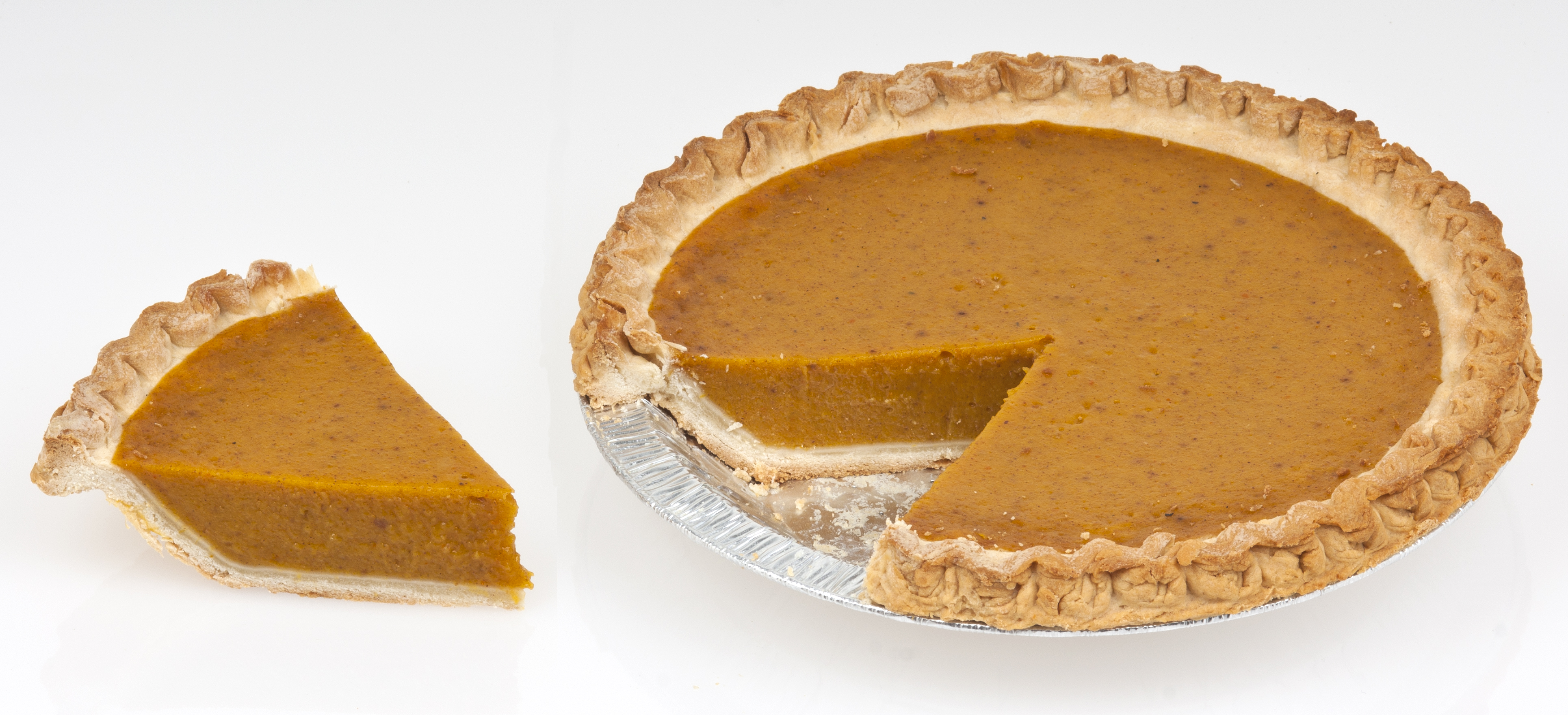 A pumpkin pie with a slice cut out, this is a smaller Table Talk brand version.